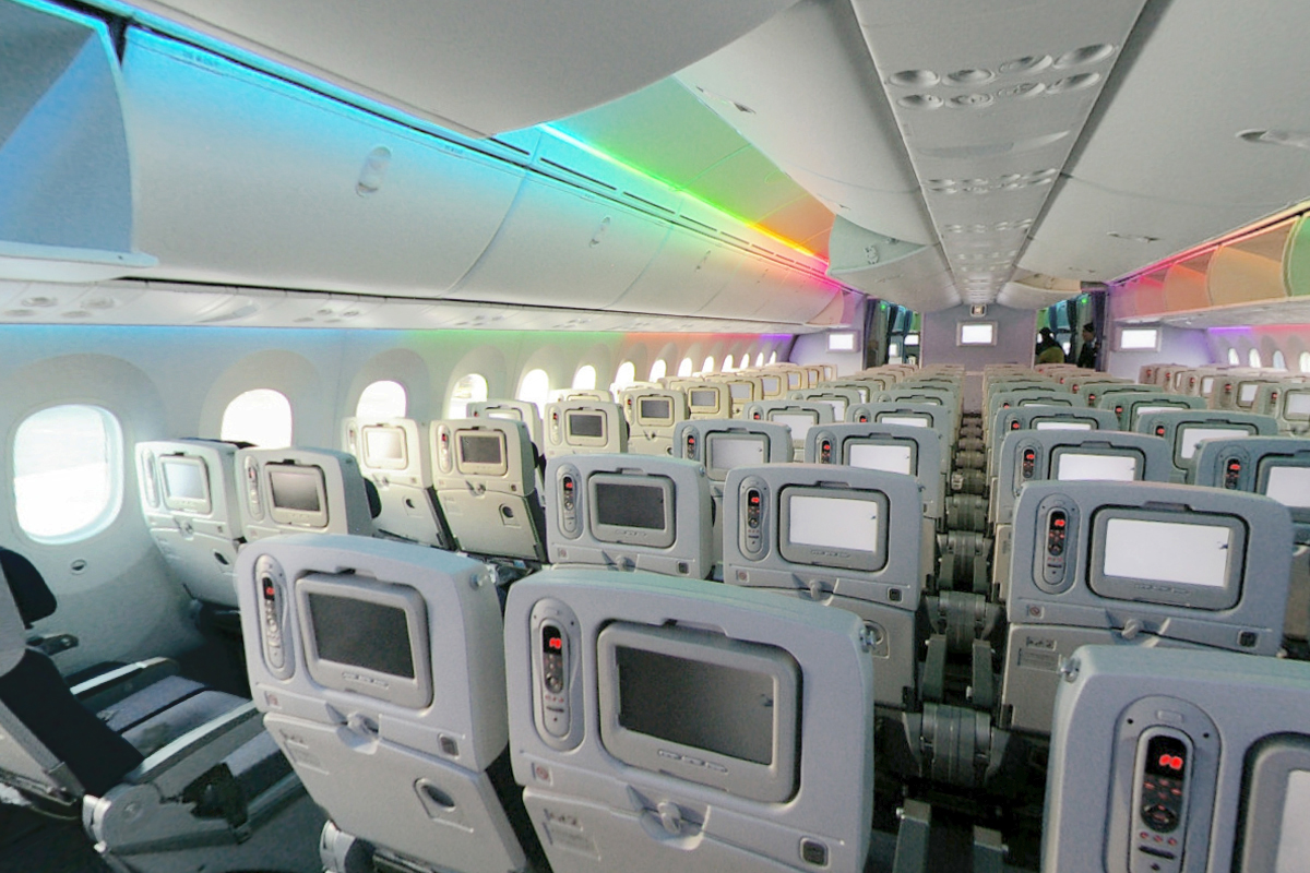 Boeing B-787 arrived at Okayama airport, Okayama, Japan. Might be the first panorama inside B-787. Immersive viewer / パノラマビューアでご覧下さい。